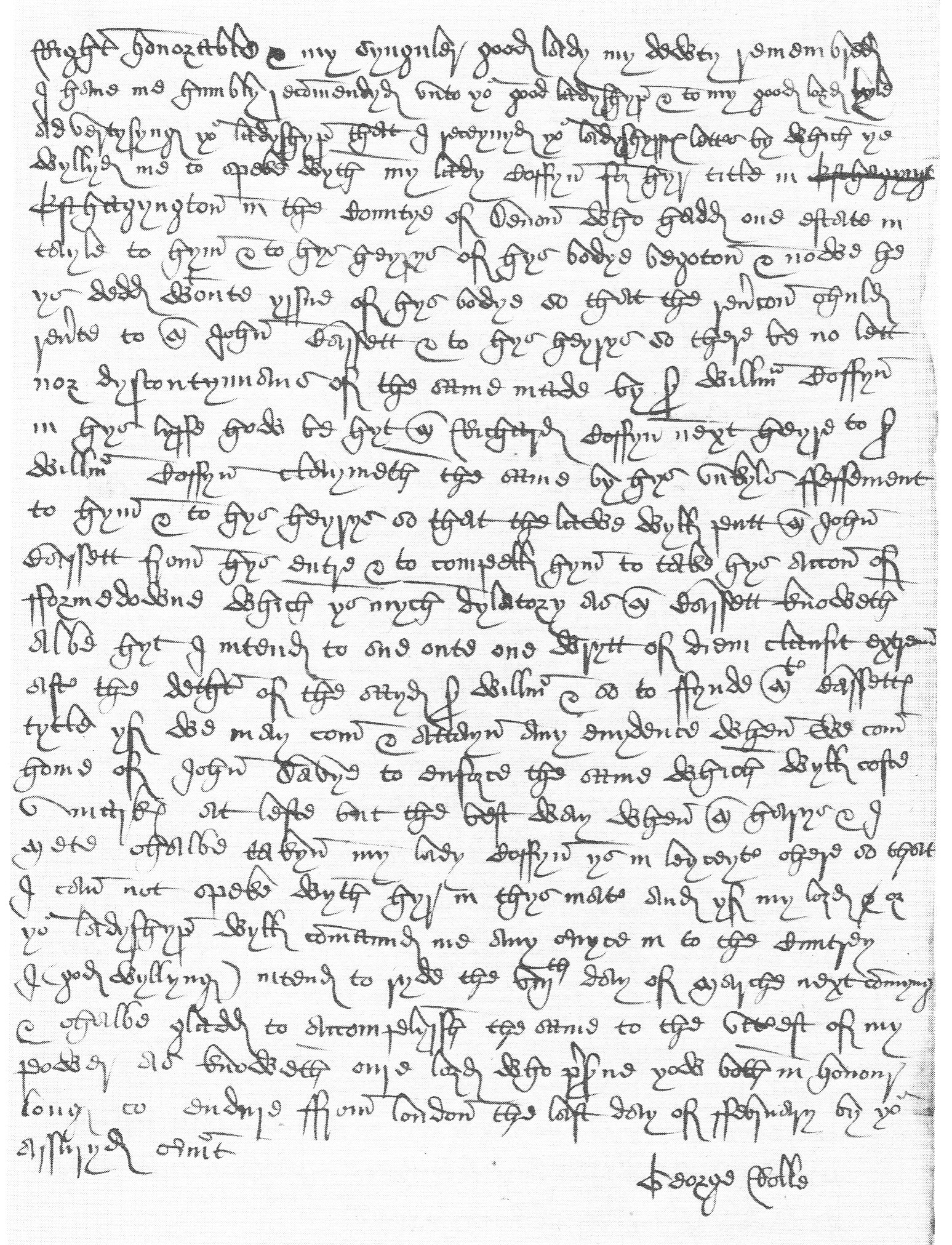 Letter dated 28 February 1539 from George Rolle (d.1552) of Stevenstone, Devon, to Honor Plantagenet, Viscountess Lisle: "Right honourable and my singular good lady, my duty remembered, I have me humbly recommended unto your good ladyship and to my good Lord Lyle advertising your ladyship that I received your ladyship's letter by which ye willed me to speak with my Lady Coffyn for her title in East Haggynton in the county of Devon who had one estate in tail to him and to his heirs of her body begotten; and now he is dead without issue of his body so that the reversion should revert to Mr John Basset and to his heirs so there be no let nor discontinuance of the same made by Sir William Coffyn in his life. Howbeit Mr Richard Coffyn, next heir to Sir William Coffyn, claimeth the same by his uncle's feoffment to him and to his heirs so that the law will put Mr John Basset from his entry and to compel him to take his action of form down which is much dilatory as Mr Basset knoweth albeit I intend to sue unto one writ of diem clausit extremum after the death of the said Sir William and so to find Mr Basset's title if we may come and attain any evidence, when we come home, of John Davy, to enforce the same which will cost v marks at least. But the best way when Mr Harys and I meet shall be taken. My Lady Coffyn is in Leicestershire so that I could not speak with her in this matter. And if my lord or your ladyship will command me any service into the country I (God willing) intend to ride the viii th day of March next coming and shall be glad to accomplish the same to the utterest of my power as knoweth our Lord who preserve you both in honour long to endure. Ffrom London the last day of Ffebruary, by your assuryd servant George Rolle".